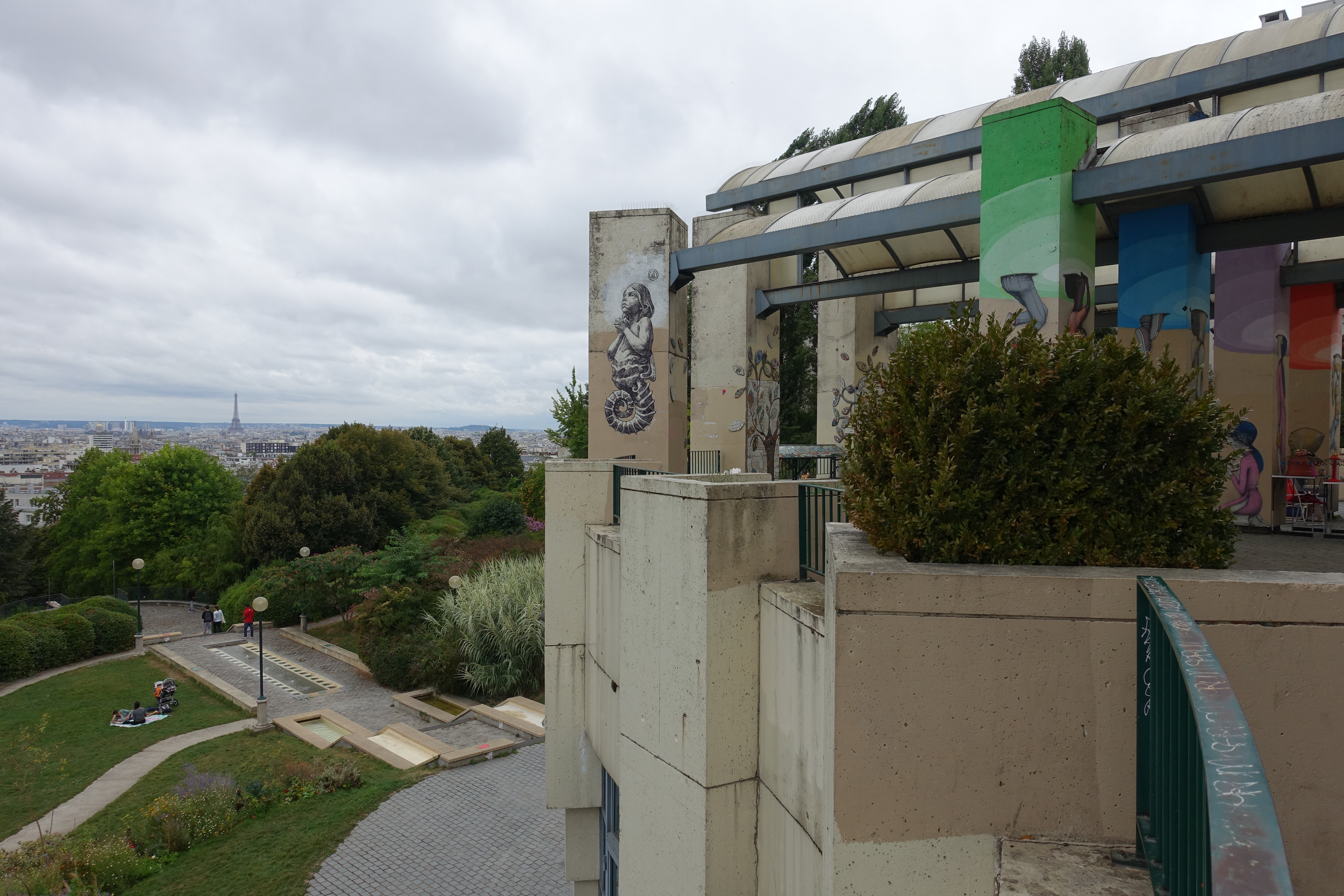 Parc de Belleville @ Paris